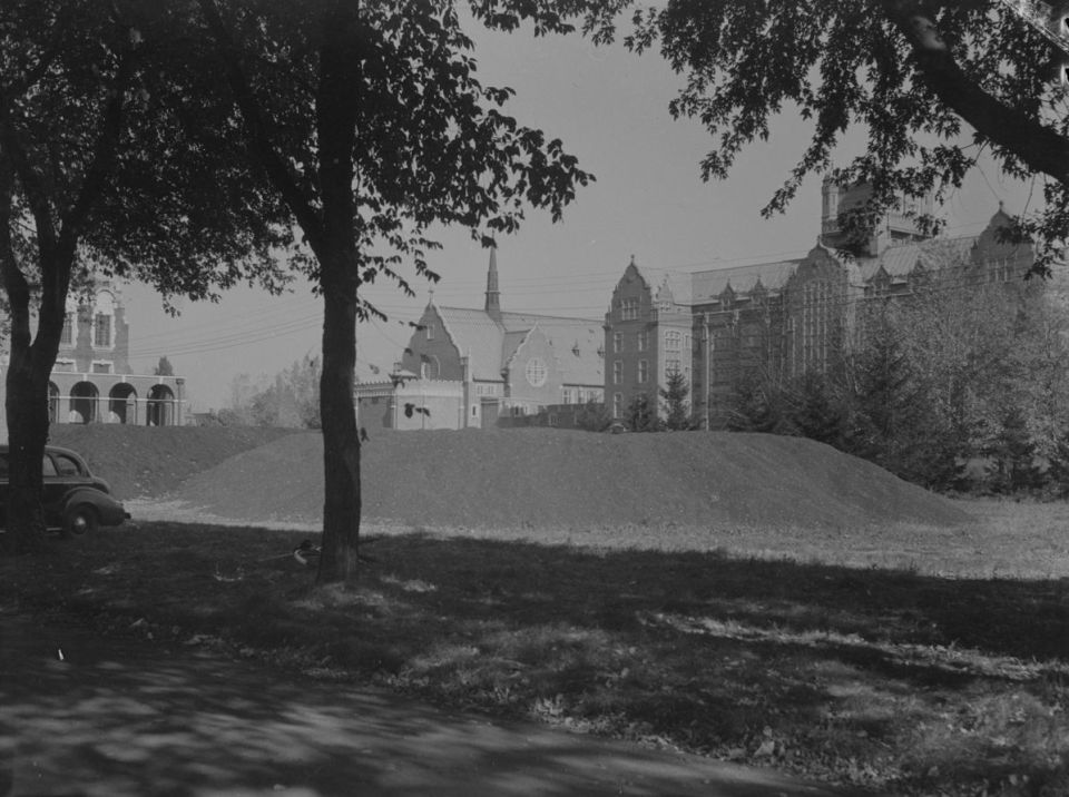 We see coal field of the "Loyola College" located at 7141 Sherbrooke Street West, Montreal.